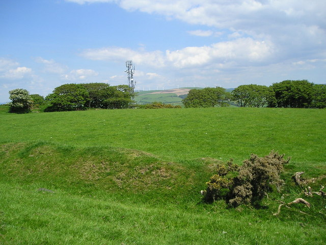 Ancient and Modern This is a view across the hill fort of Hen Caer. I am standing on the outermost of the 2 ramparts which are separated by a ditch. The large enclosed area would have protected livestock in the event of attack. The mast is also taking advantage of the elevated position and in the distance a wind farm can be seen.